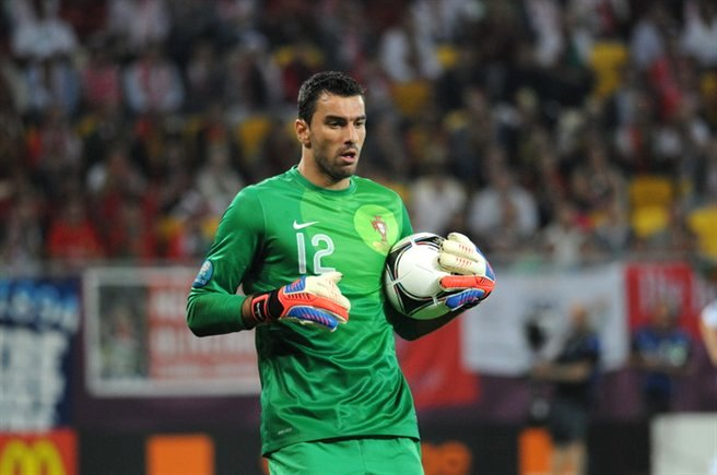 Match between Germany and Portugal during UEFA Euro 2012 that took place in Lviv. Final score was 1:0 (Gómez).